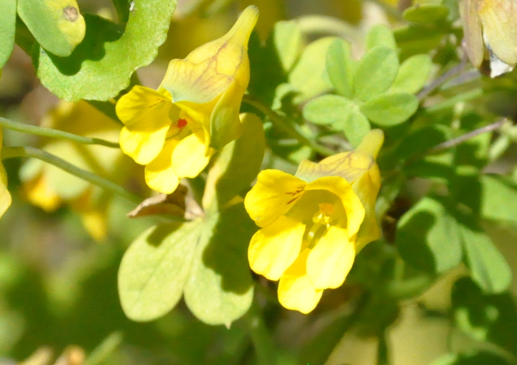 Tropaeolum ciliatum (soldadito amarillo) from Champa, Paine commune, Region Metropolitana, Chile